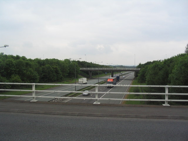 Start of the M180 The Viking Way crossing the point where the A180 from Grimsby becomes the M180 heading west (distance)